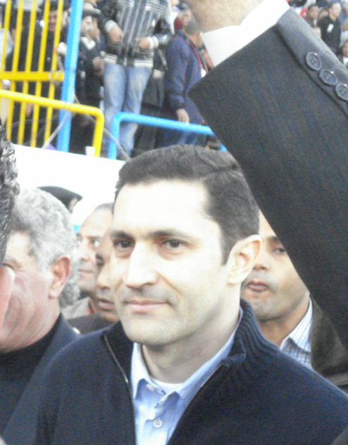 Alaa Mubarak in Ismailia, Egypt 2009